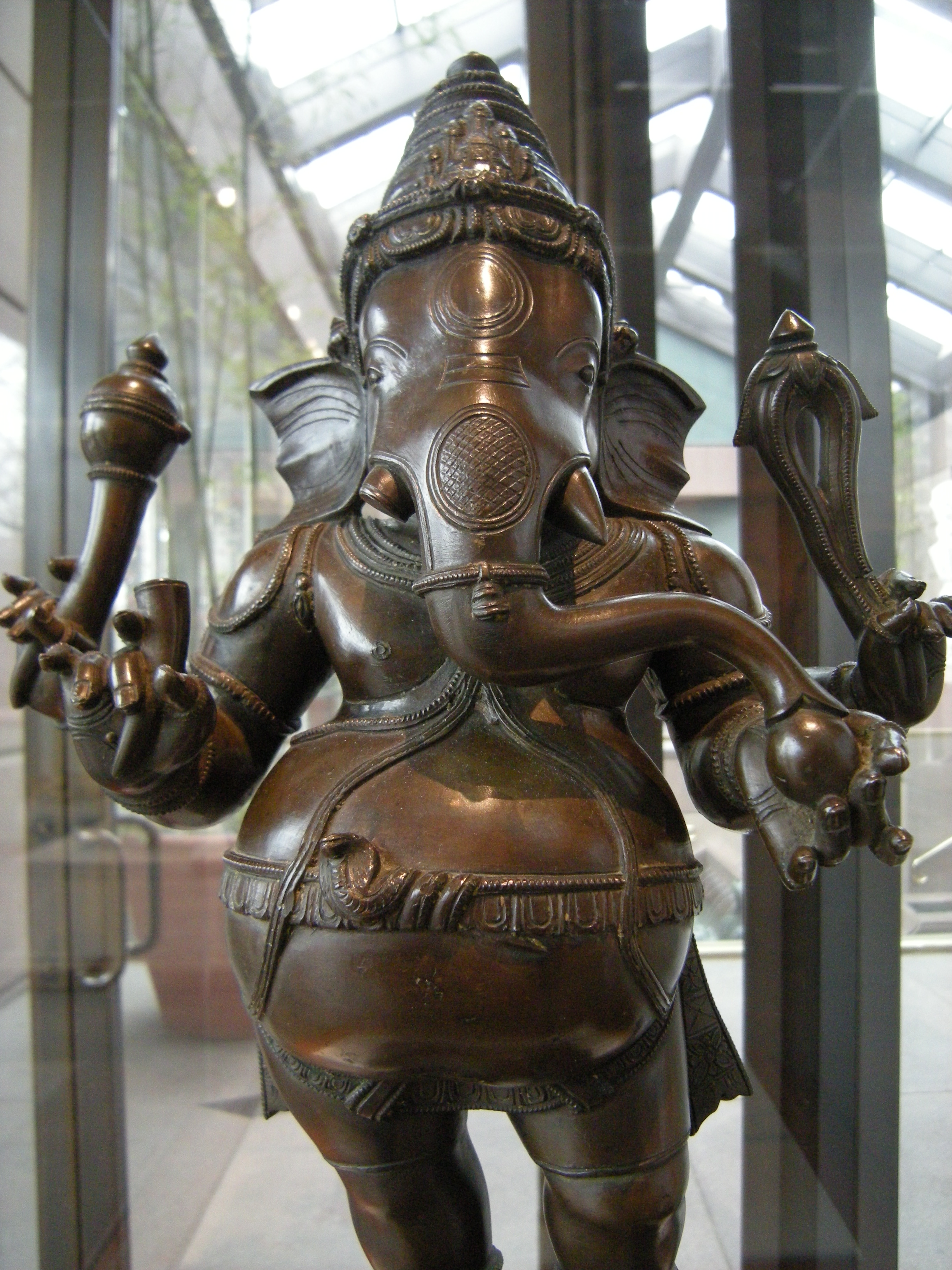 Sculpture of Ganesha, South India, 18th Century. Trammell and Margaret Crow Collection of Asian Art, a museum in Dallas, Texas.